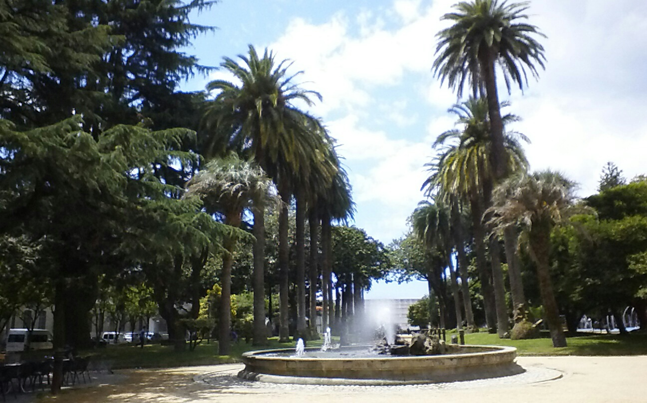 Palm Tree Park in Pontevedra